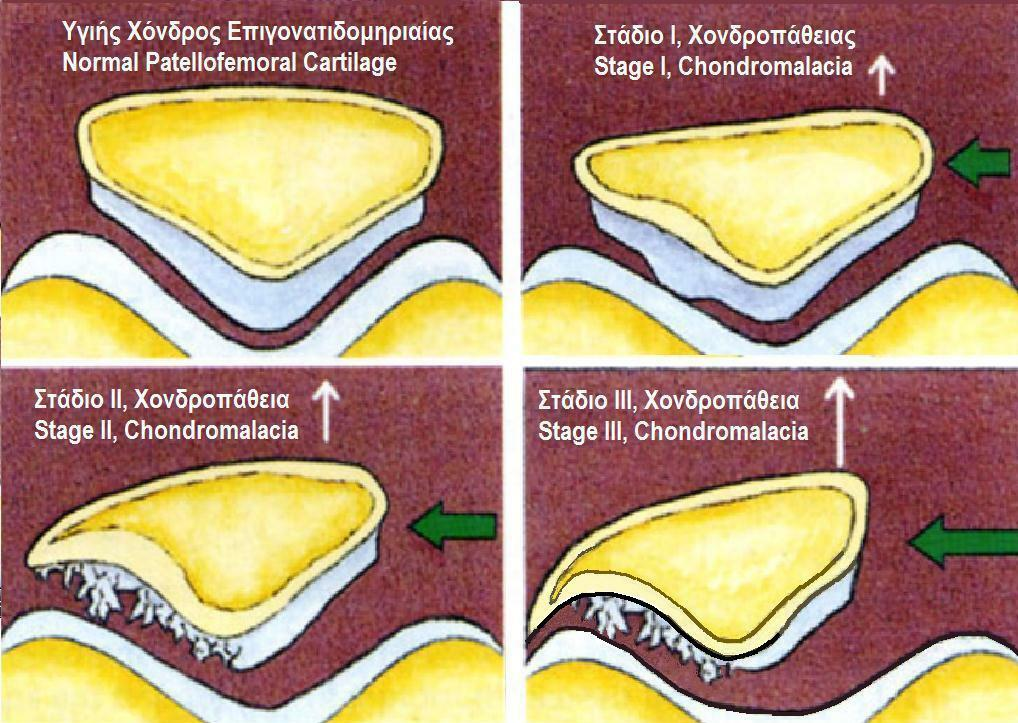 Stages of chindromalacia of patellofemoral joint